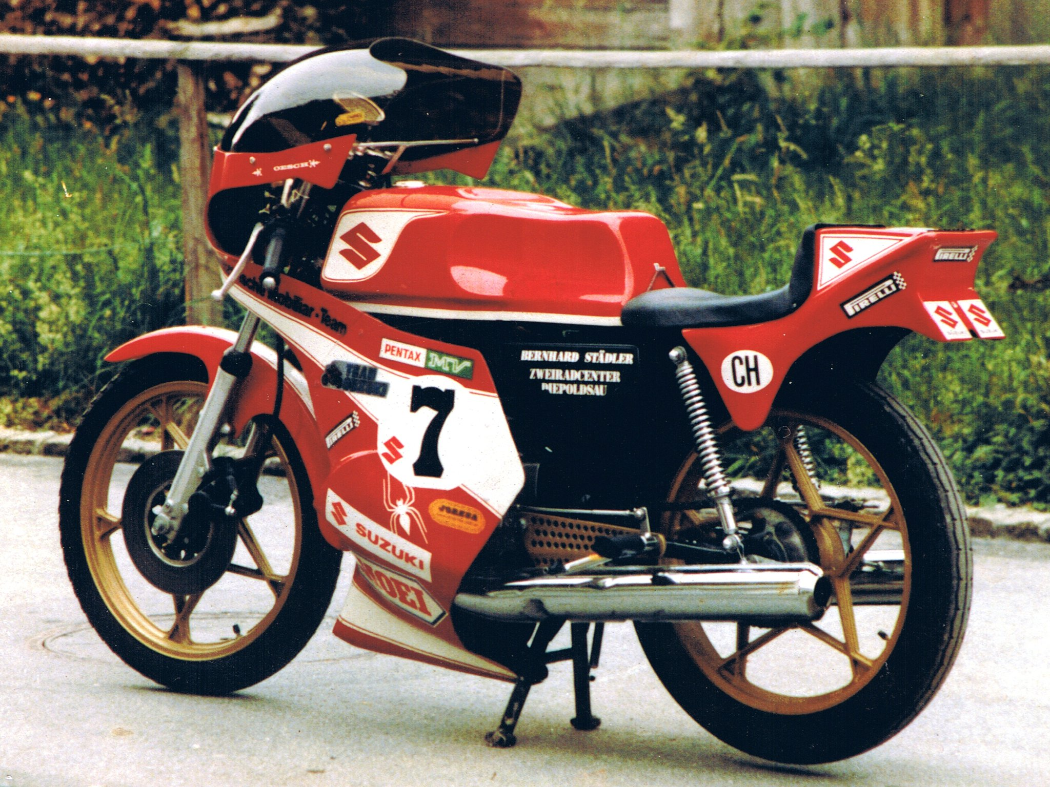 This Suzuki GT 125 was modified by Bernhard Städler (about 1981) for racing use. Build and photographed in Diepoldsau